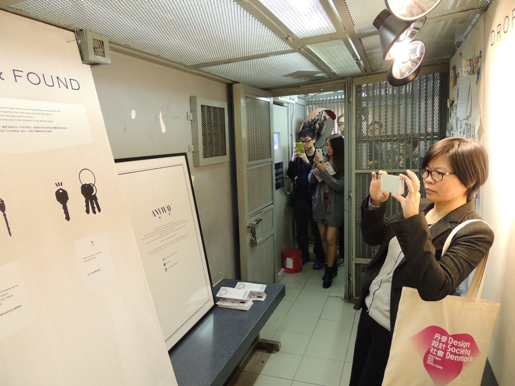 Wanchai Police Station 2012 openday